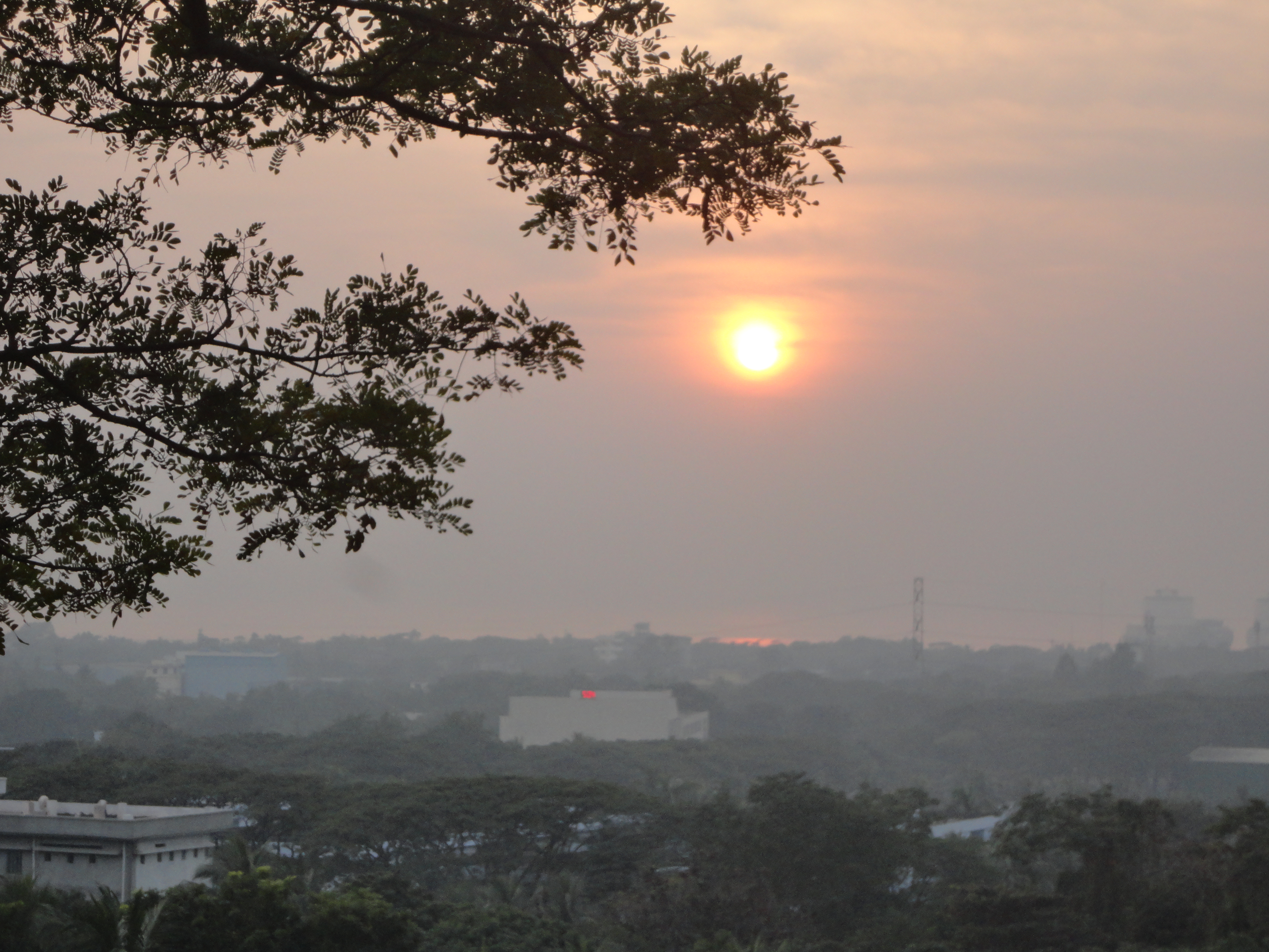 It is a photo of sunset at BMA area.jpg